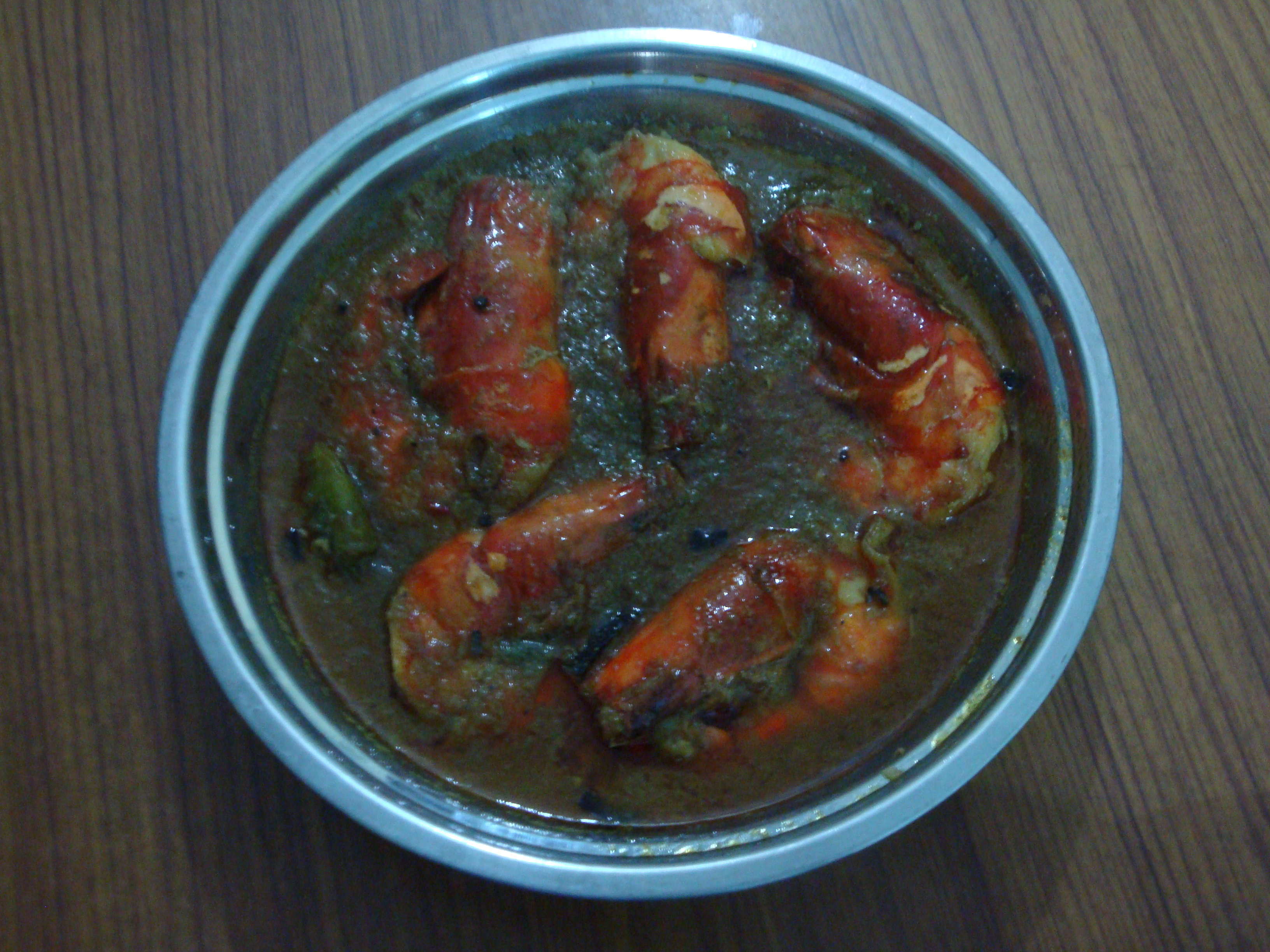 Traditional shrimp curry as prepared in Bengali Cuisine